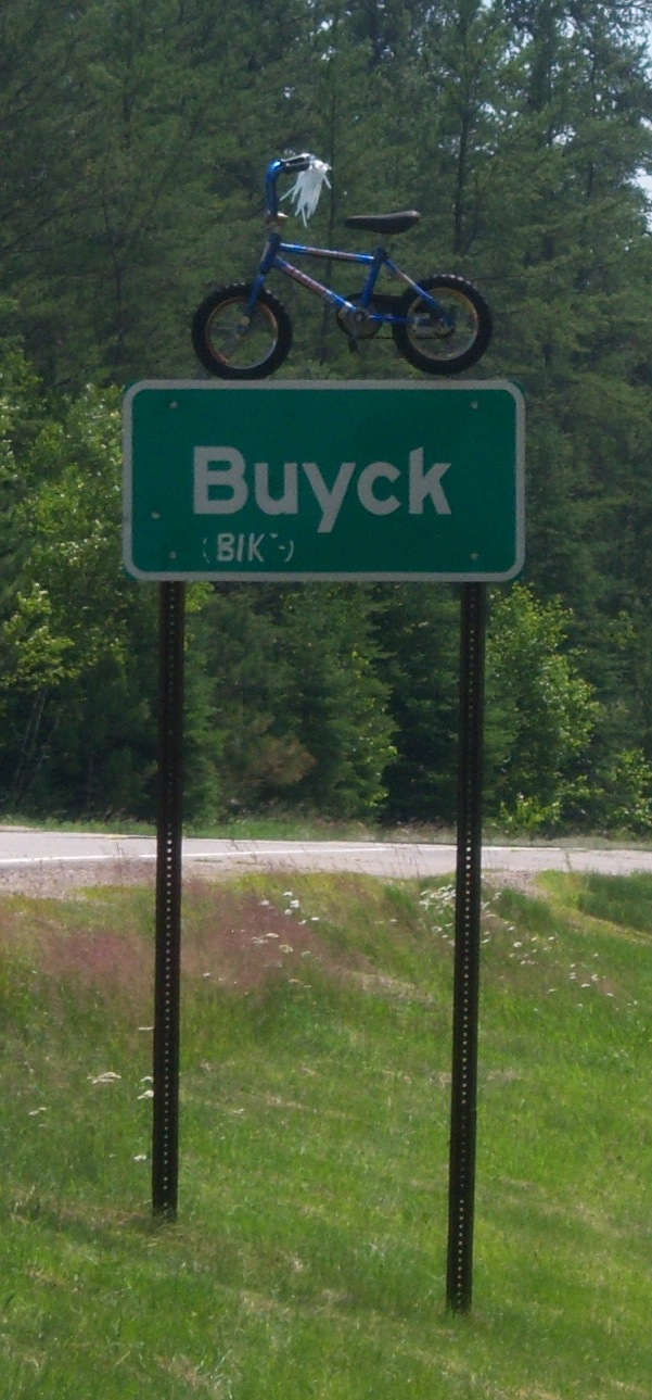 Buyck community border sign, showing the correct pronunciation of "Buyck" to be as in "bike."